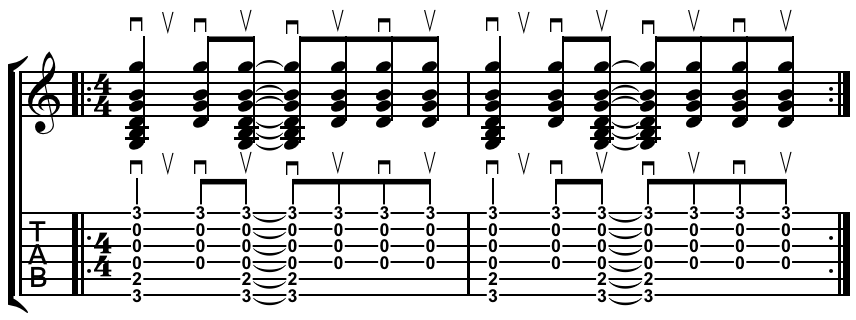 Guitar strum, common pattern on open G chord. Created by Hyacinth (talk) 22:36, 31 October 2010 using Sibelius 5. See: File:Guitar_strum_on_open_G_chord_common_pattern.mid